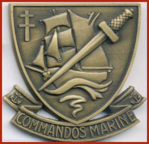 Commando beret badge navy of the French navy.